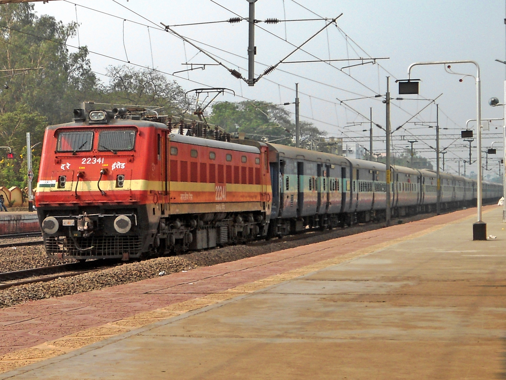 Tirucchirapalli - Howrah Express enters Tuni train station